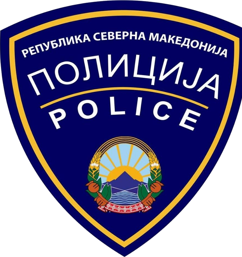 Official police patch of North Macedonia.